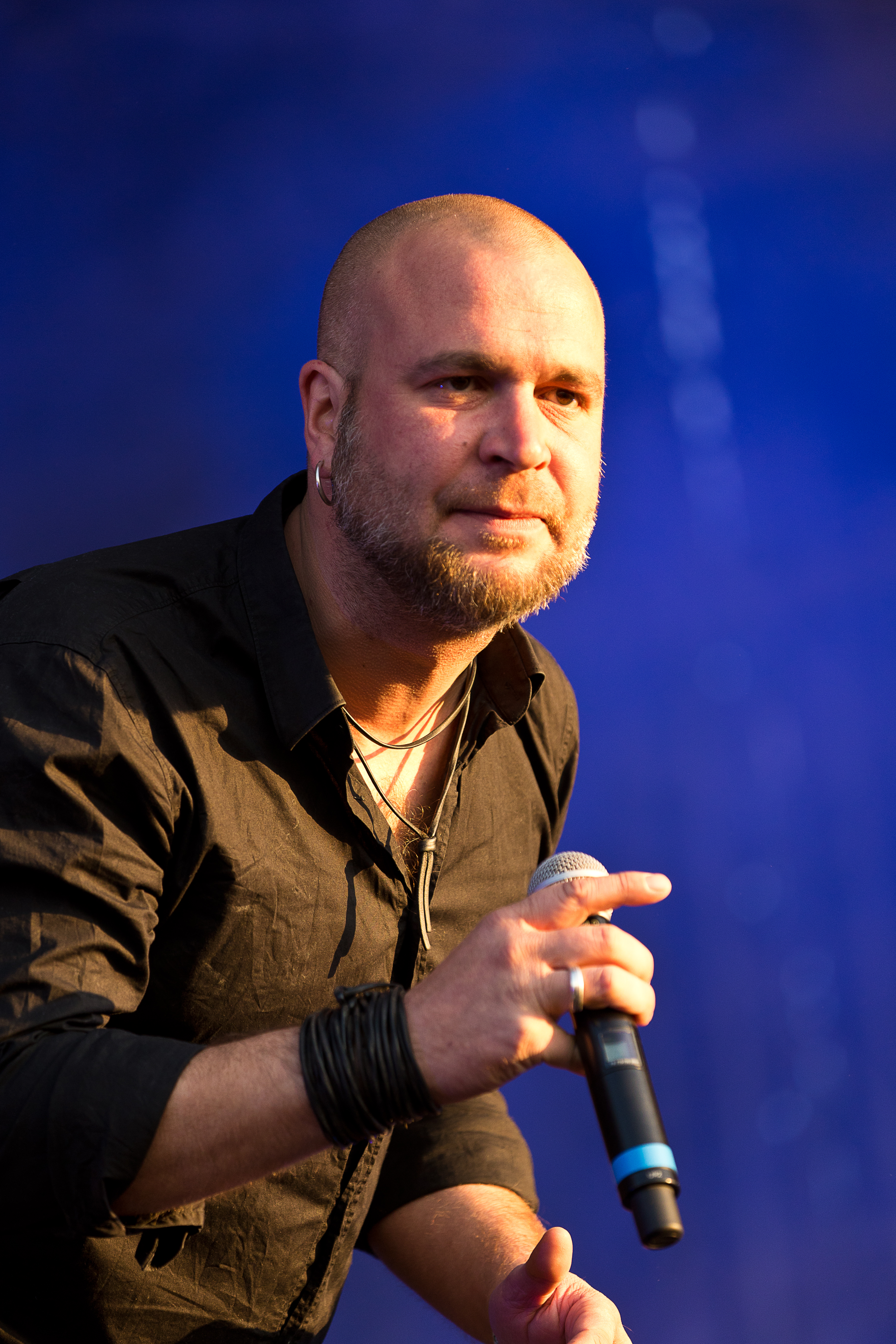 The German medieval folk rock band Schandmaul at the Rockharz Open Air 2015 in Ballenstedt/Germany.